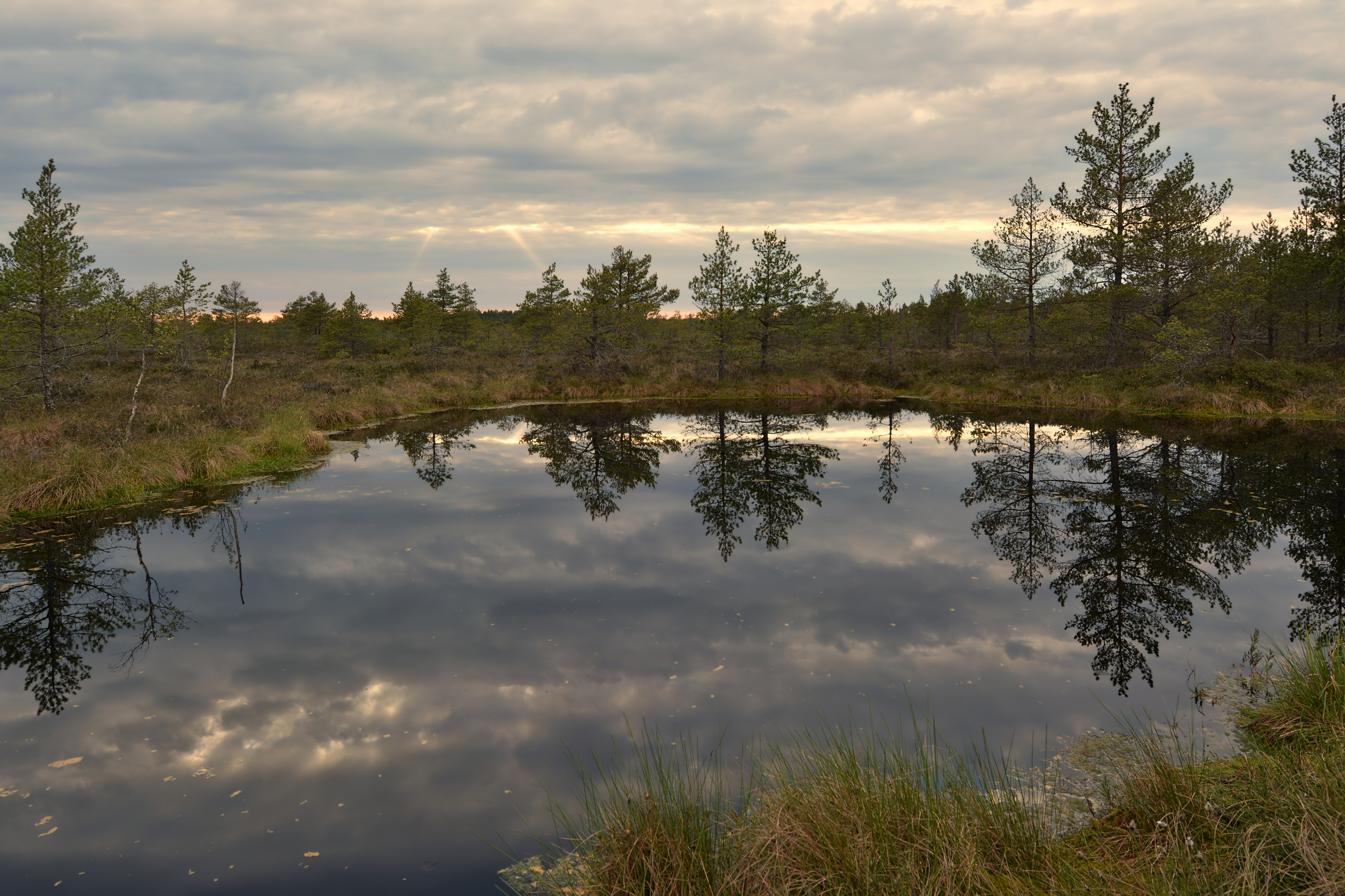 Tõlinõmme bog, Vääna Landscape reserve.